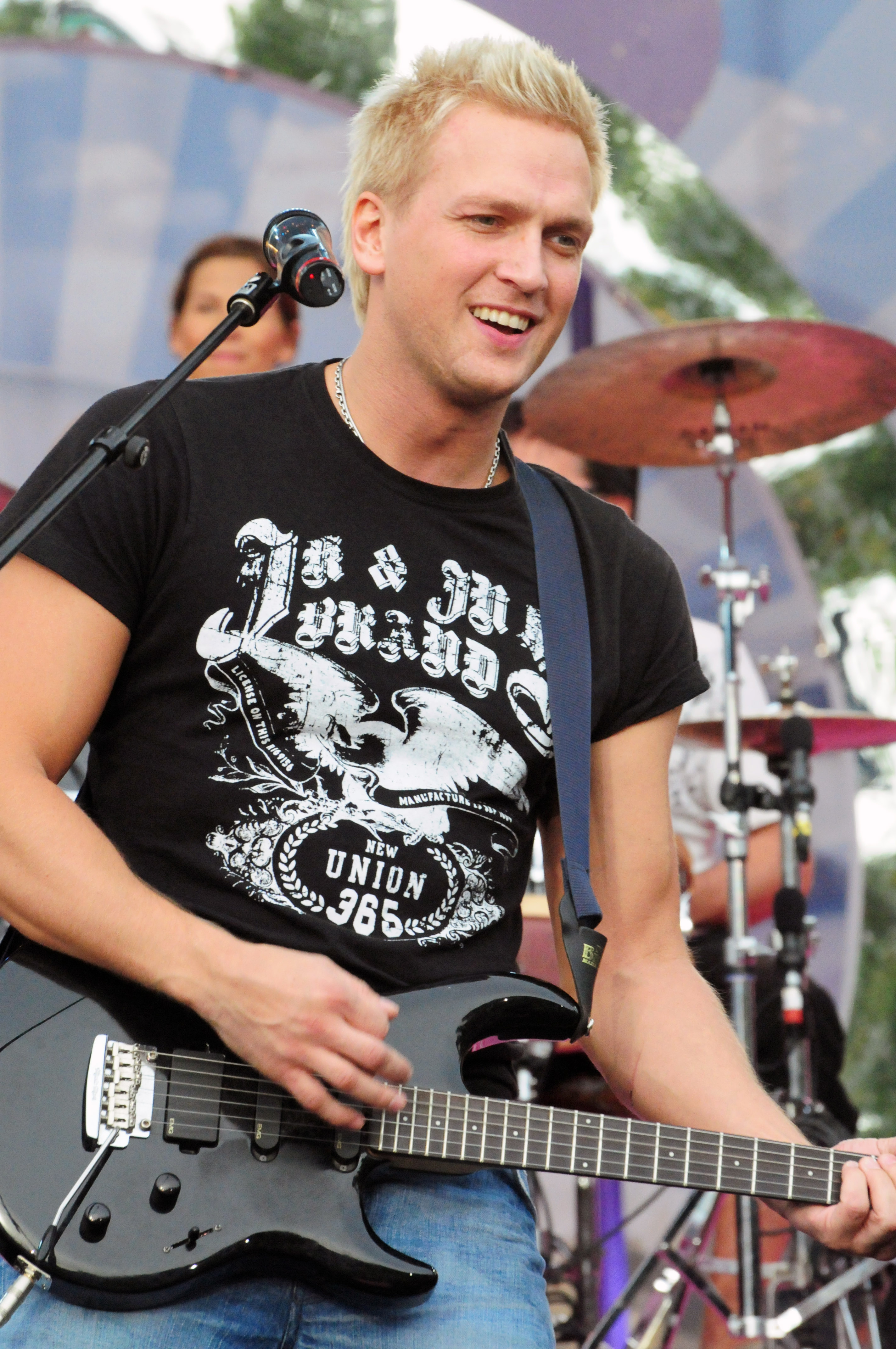 Henrik Strömberg in Scotts at Gröna Lund in Stockholm under Sommarkrysset 2009